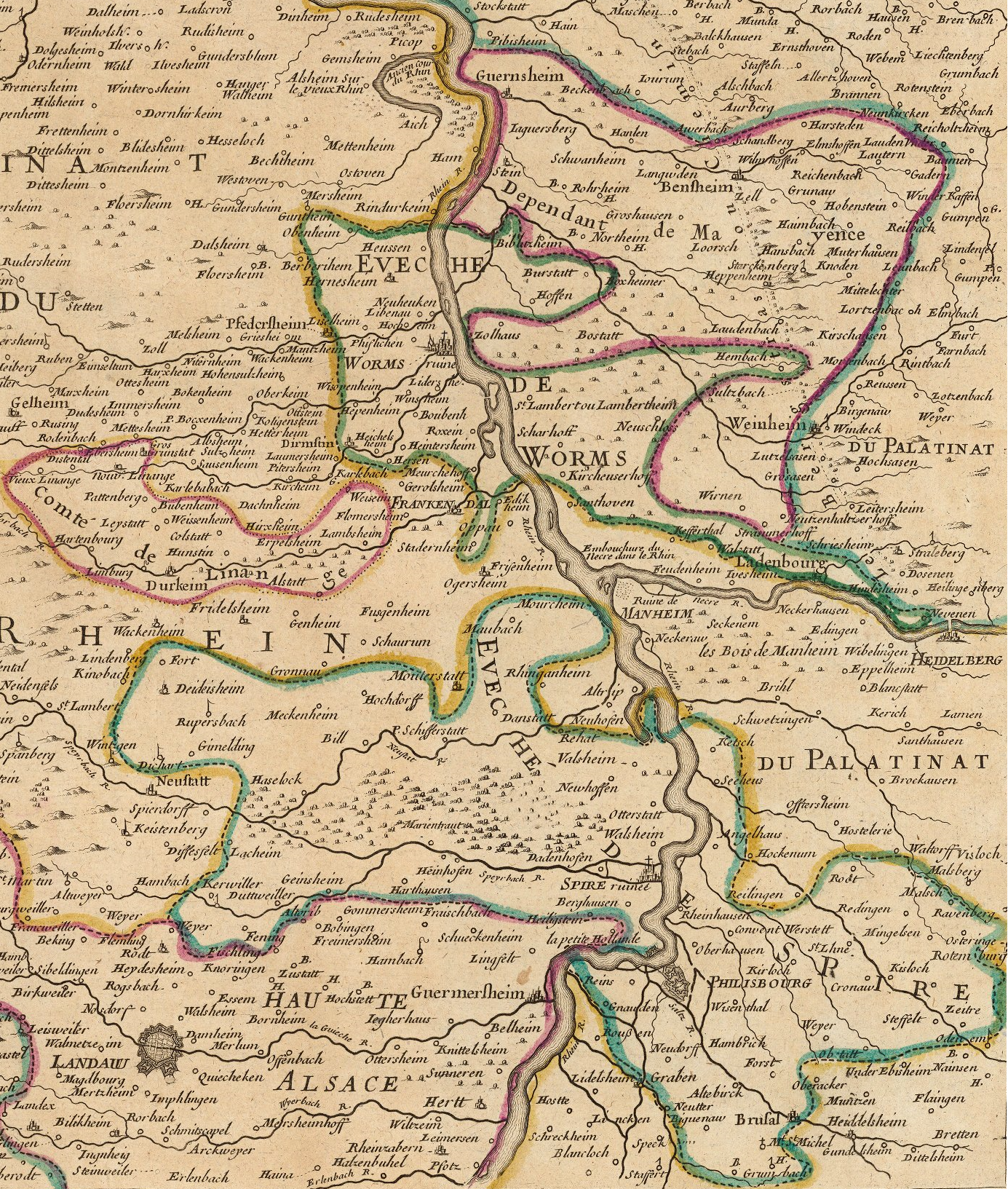 The Prince-Bishoprics of Worms ("Eveché de Worms") and Speyer ("Eveché de Spire") and surrounding area c. 1705. Cropped from a map of Nicholas de Fer titled Electorat et Palatinat du Rhin (1705).